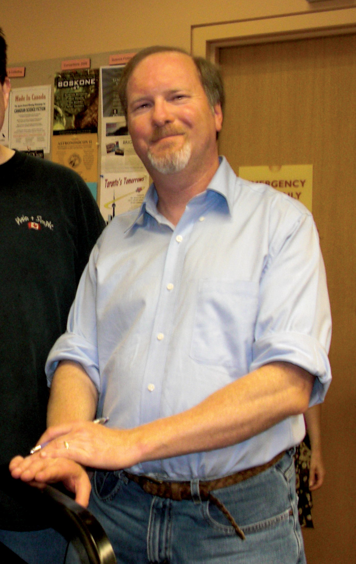 Kevin J. Anderson at a book signing at the Merril Collection of Science Fiction, 239 College St. 3rd Floor, Toronto, Ontario, Canada on August 18 2009 at 8:54 PM. Photo is cropped down from the original which included myself and Brian Herbert.